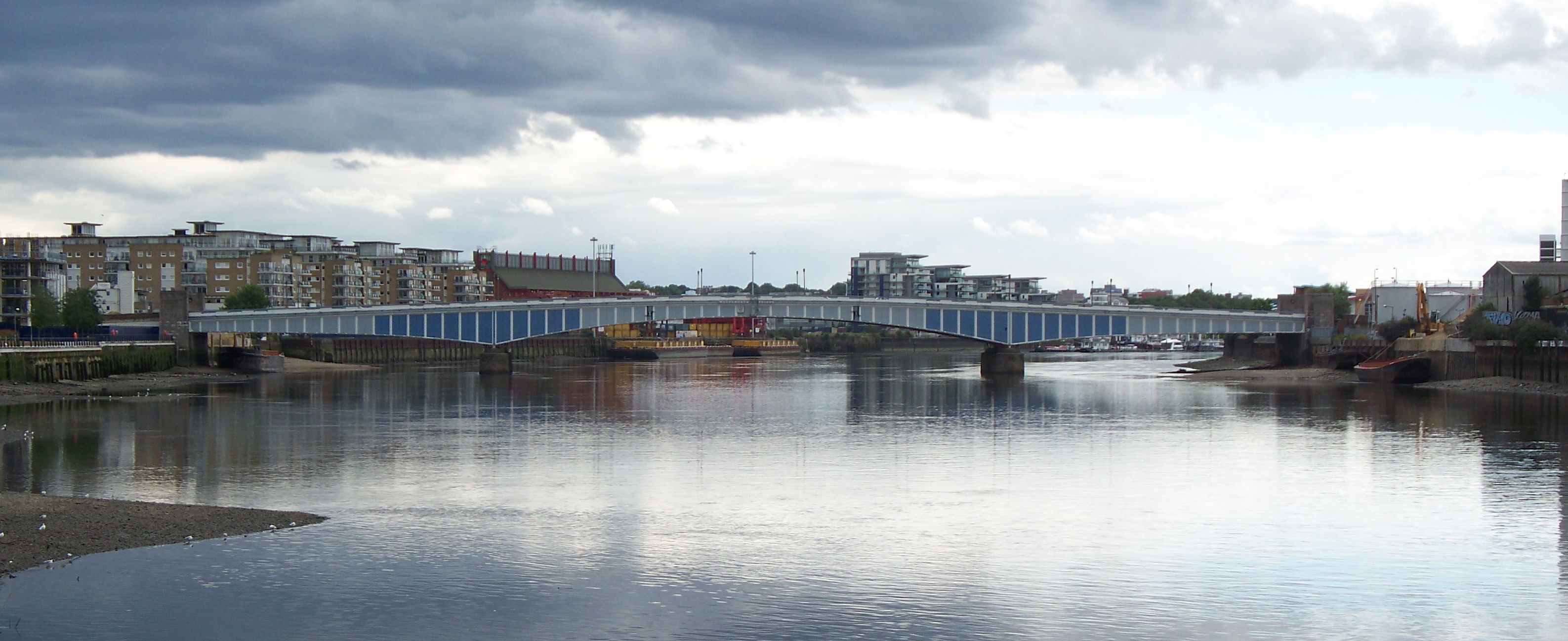 Wandsworth Bridge, London. Photograph taken in a public location in the UK of a building on permanent public display, and exempt from copyright under Section 62 of the Copyright Designs & Patents Act 1988 ("it is not an infringement of copyright to film, photograph, broadcast or make a graphic image of a building, sculpture, models for buildings or work of artistic craftsmanship if that work is permanently situated in a public place or in premises open to the public")